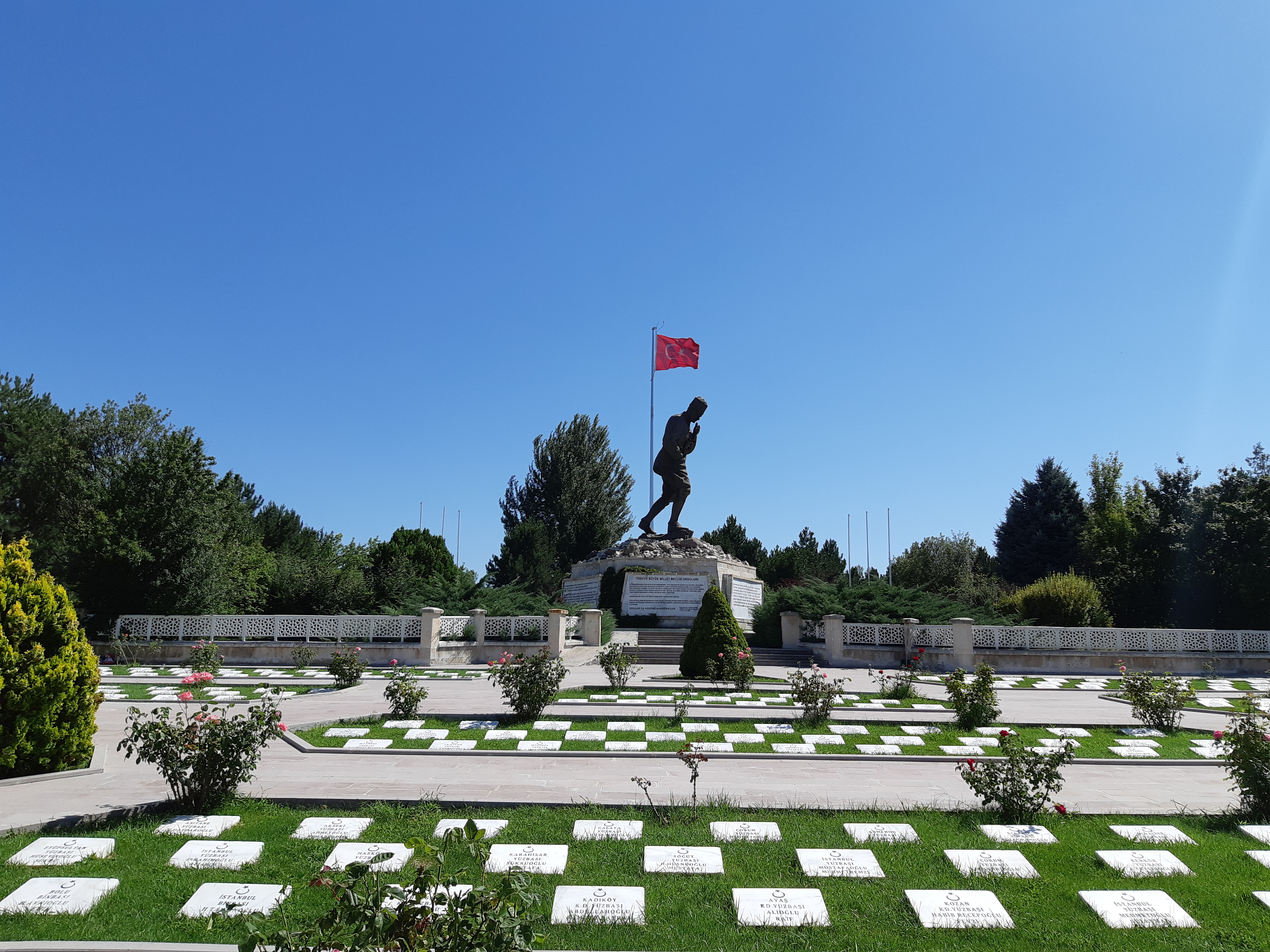 Afyon Great Offensive Cemetery and Mustafa Kemal Ataturk Monument - Afyonkarahisar